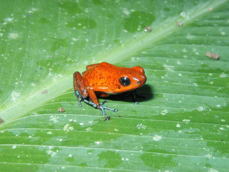 Strawberry Poison-dart Frog (Oophaga pumilio)